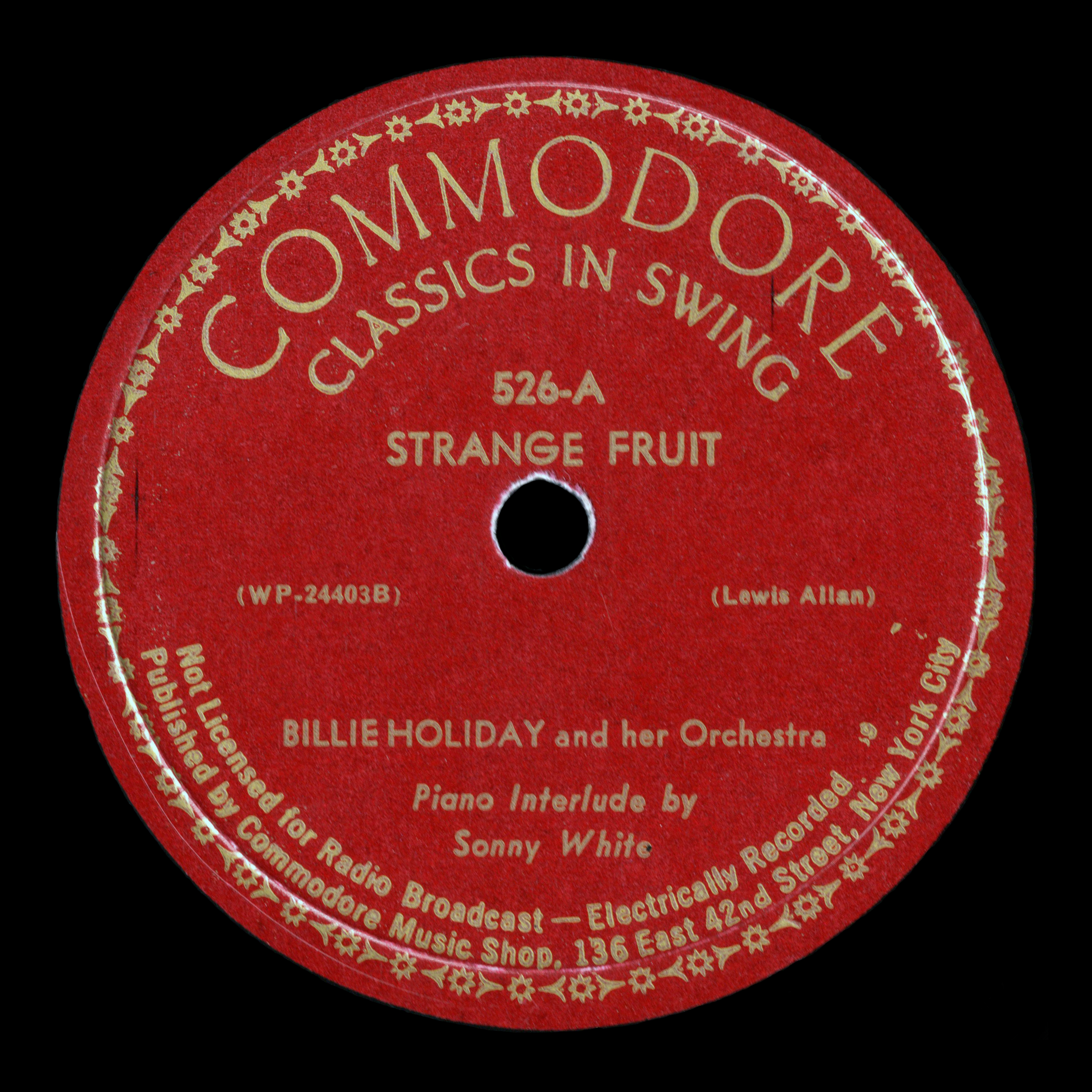 Commodore Records 78 label for "Strange Fruit" by Billie Holiday and Her Orchestra (526A), published by Commodore Music Shop, 136 East 42nd Street, New York City